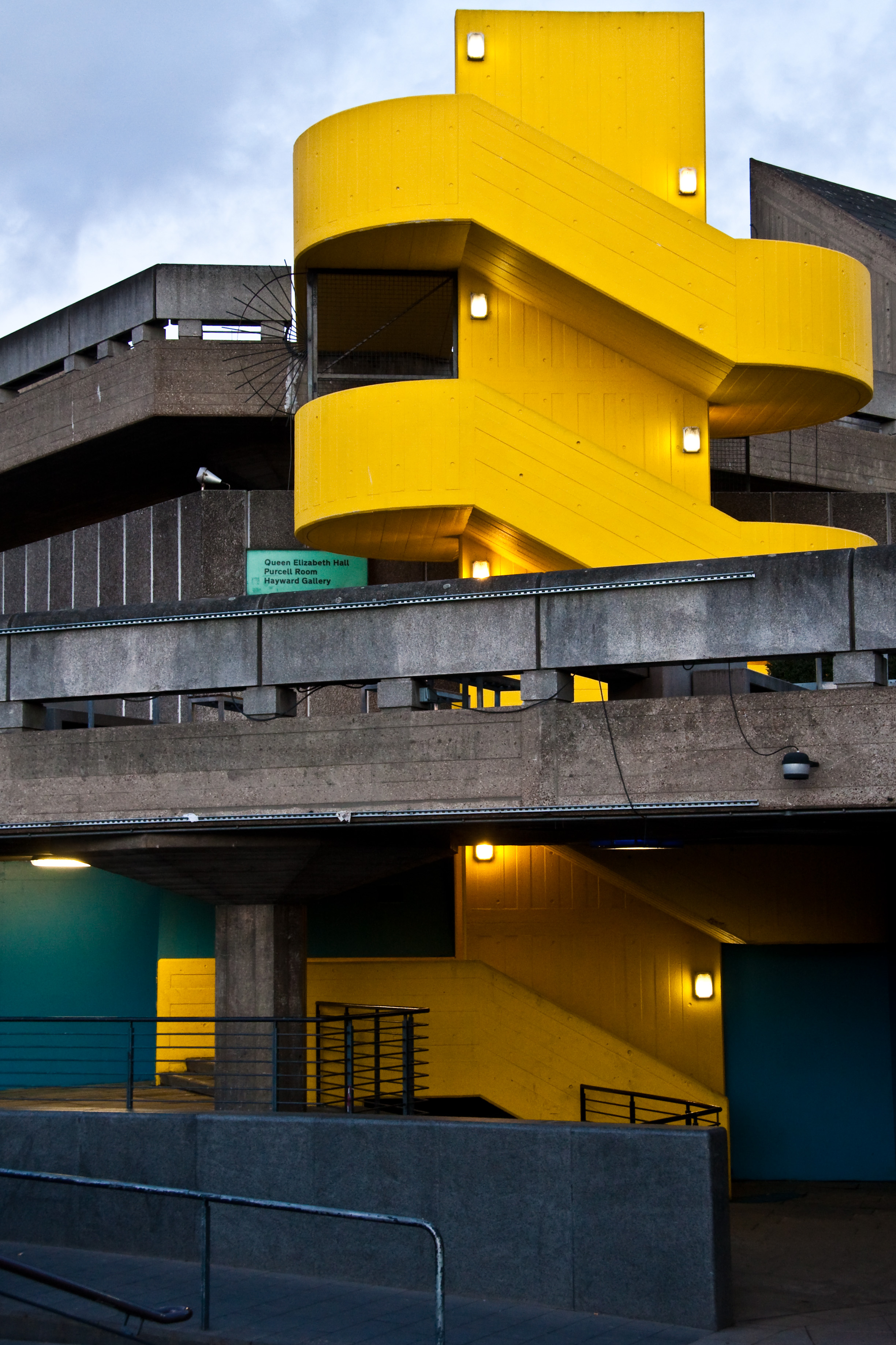 The way up to the Queen Elizabeth Hall, Purcell Room, and the Hayward. Southbank Centre, London, England.